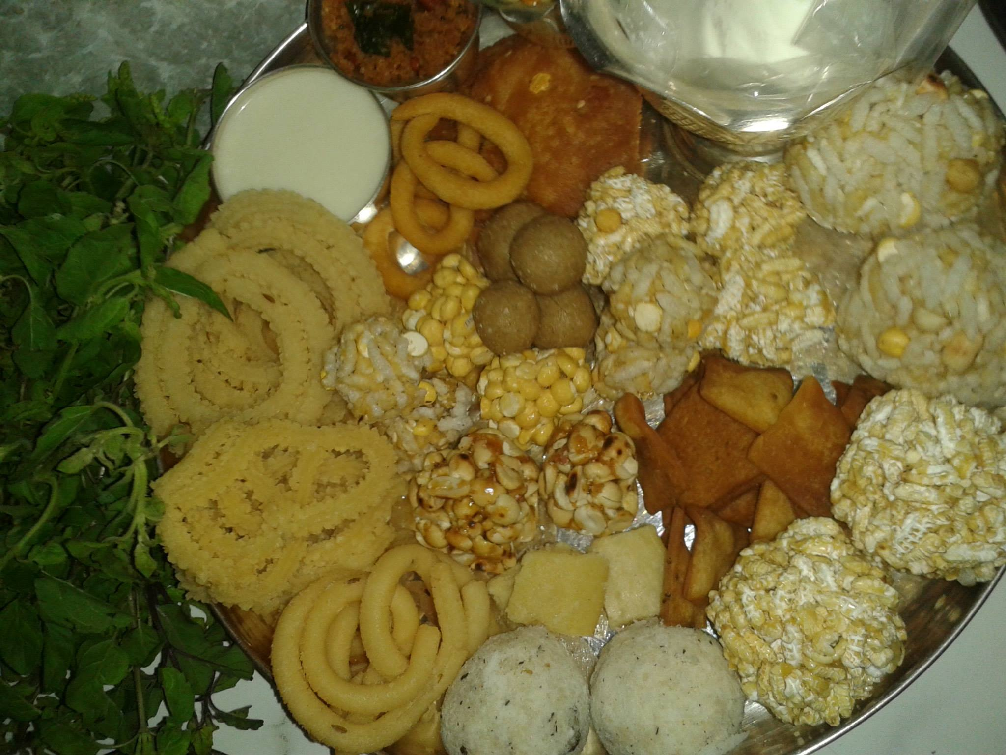 Lord Krishna's birthday is celebrated as a festival in India. People fast on this day & prepare all the delicacies to the Lord.